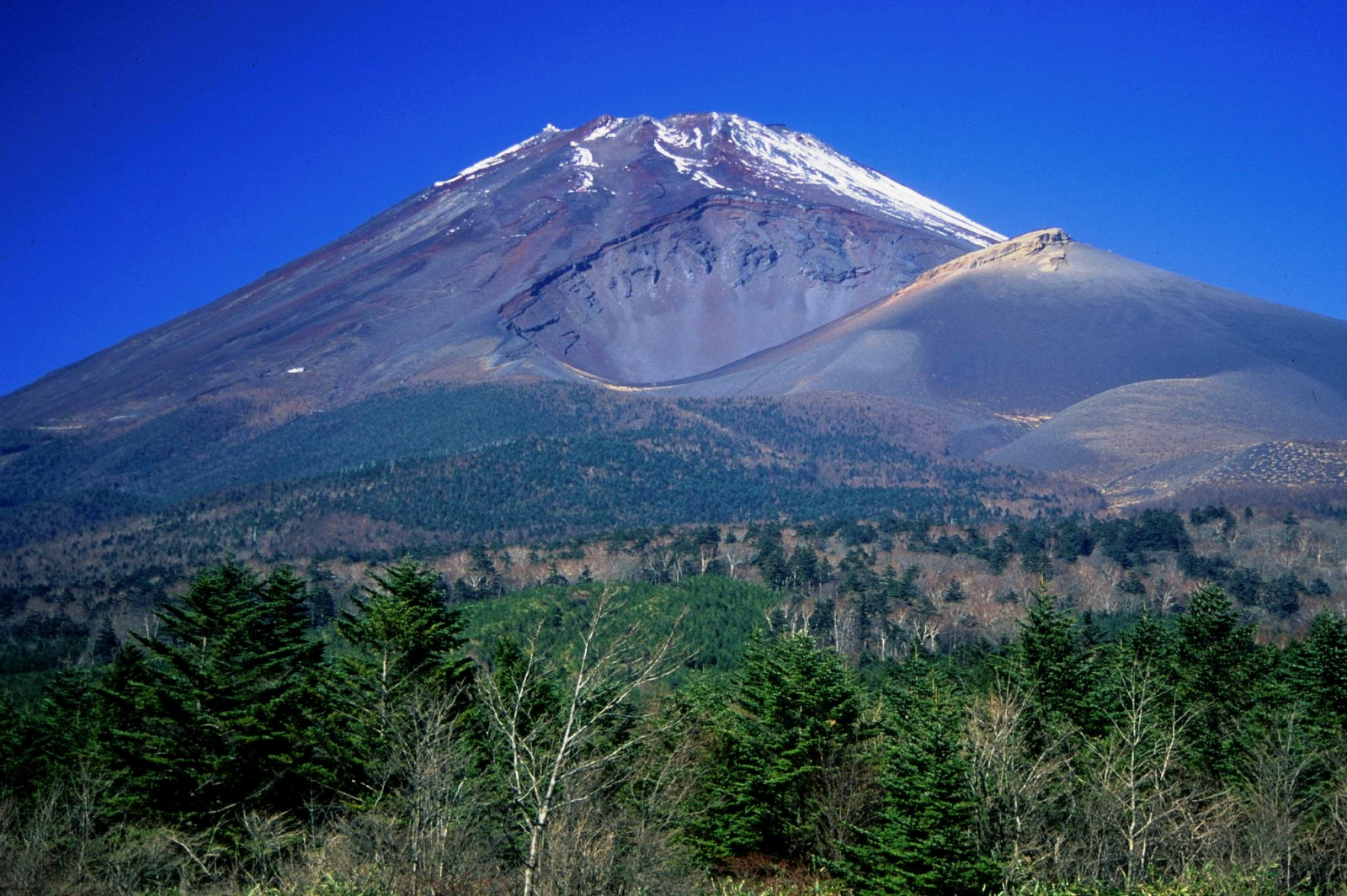 Mount Hoei of Mount Fuji from Jurigi in Susono, Shizuoka prefecture, Japan.